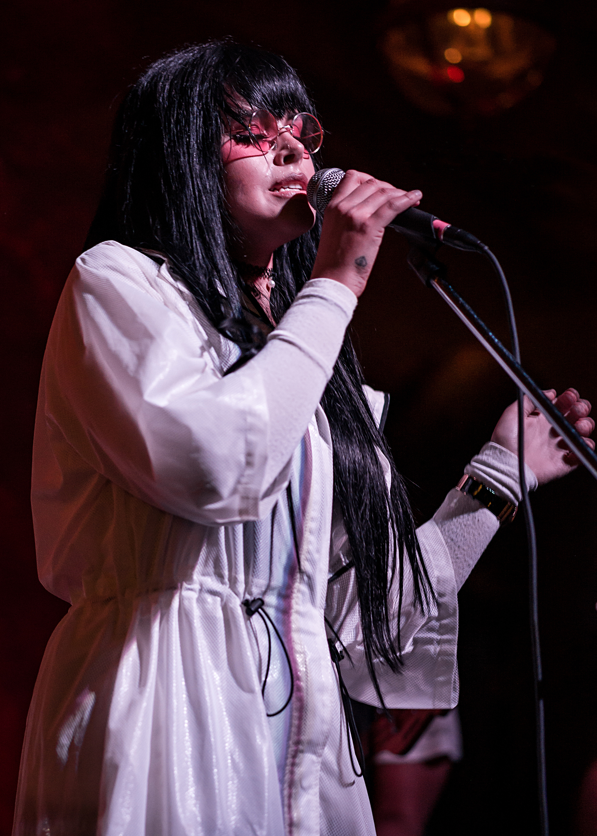 Saara at School Night at Bardot Hollywood